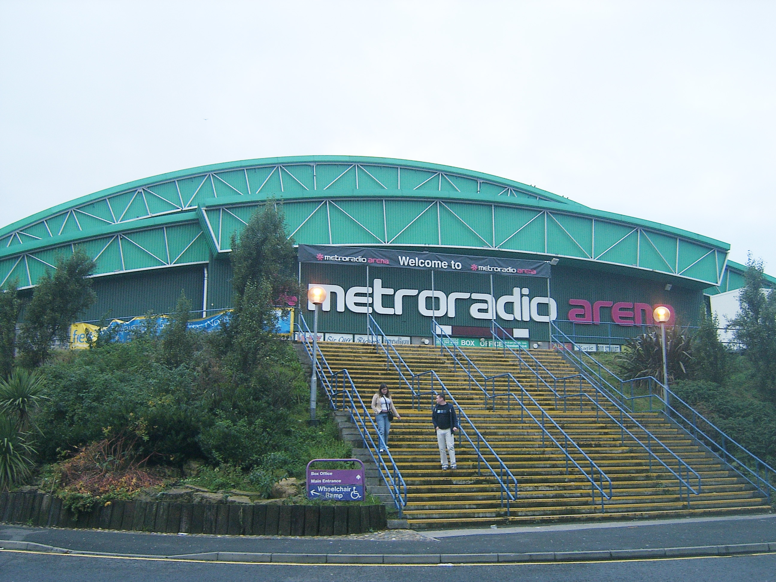 Photograph: User:Gunnar Larsson. Photo of Metroradio Arena, Newcastle, taken October 23.